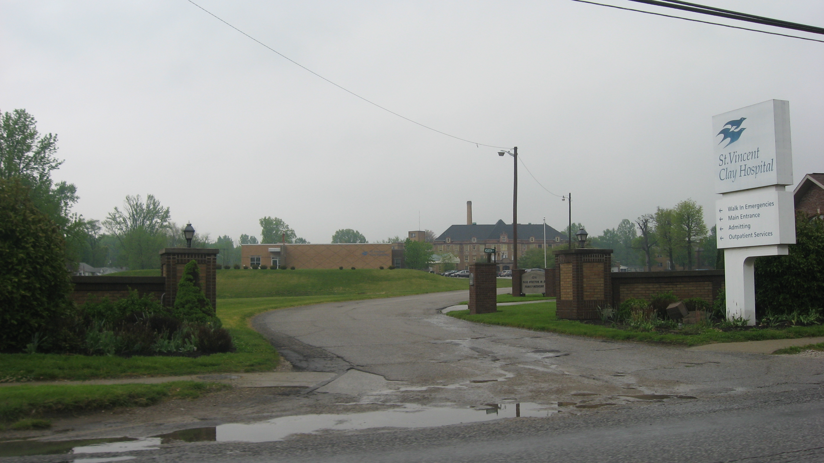 Entrance to the Clay County Hospital, located at 1200 E. National Avenue (U.S. Route 40) on the eastern side of Brazil, Indiana, United States. Built in 1928, it is listed on the National Register of Historic Places.